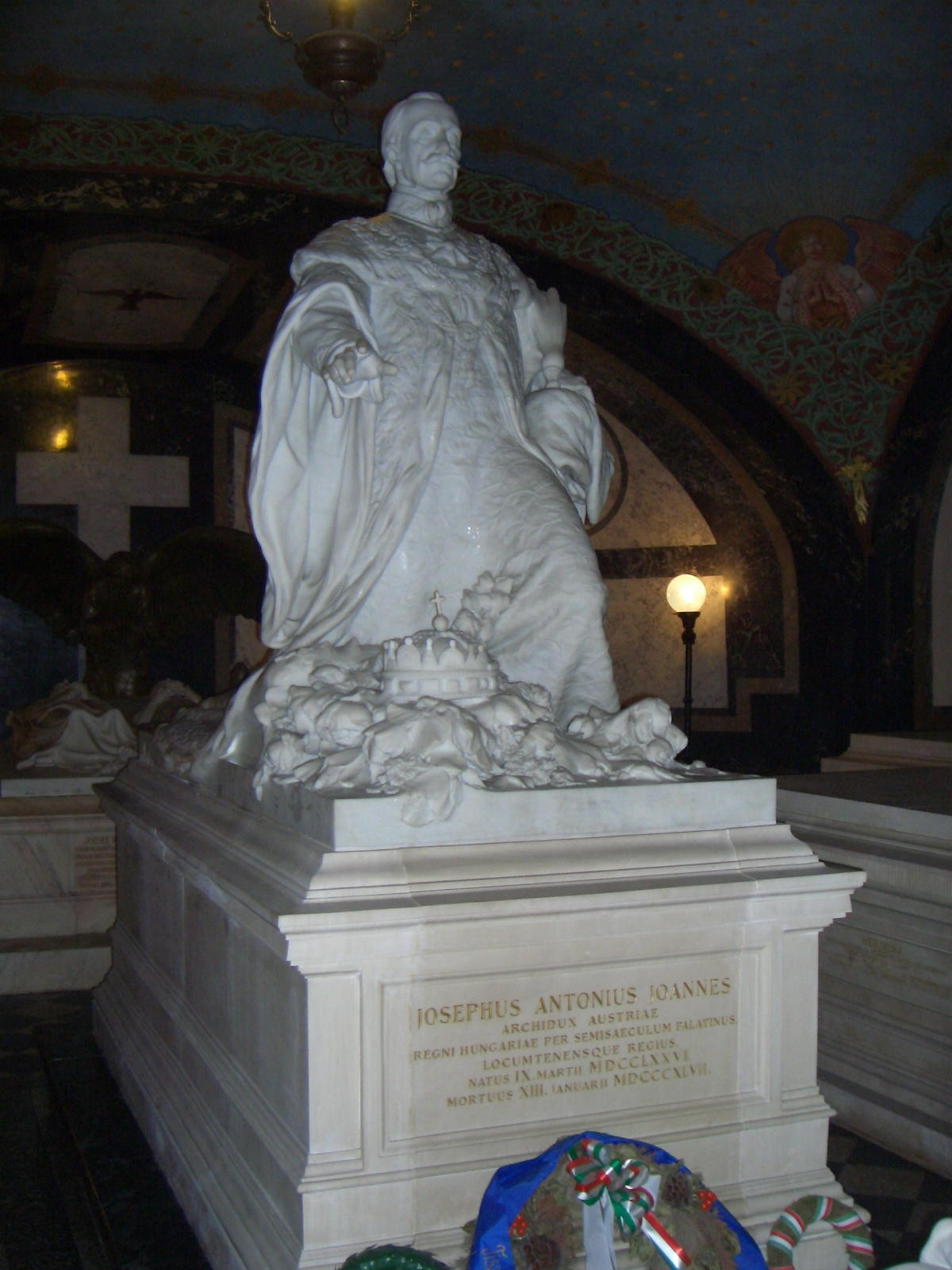 Tombstone of Archduke Joseph Anton Johann (Baptist) of Austria, 1776-1847, Palatin of Hungary, in Habsburg Crypt (Royal castle of Buda / Budapest)